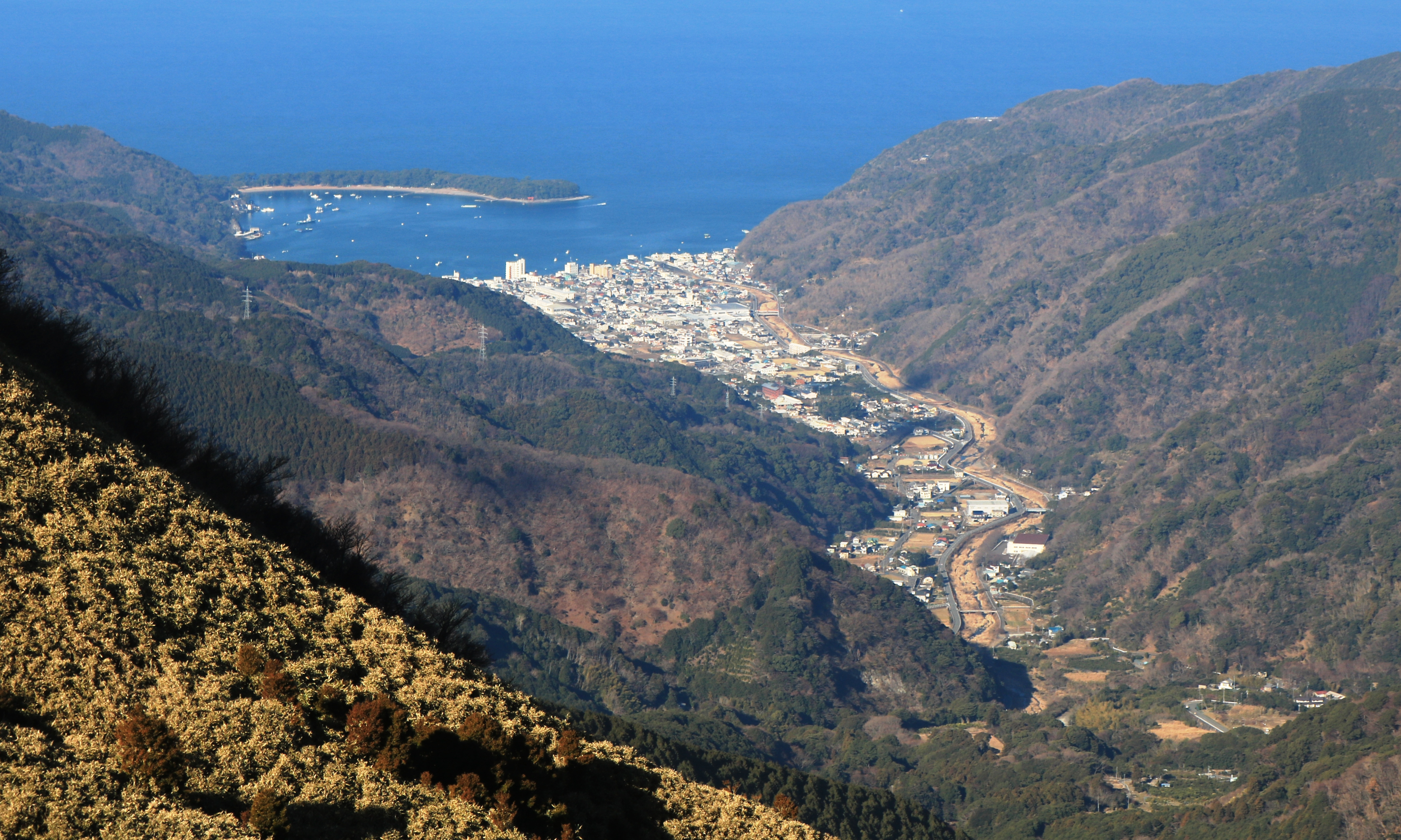 Hedao River and Port of Heda seen from Heda Parking of Nishiizu Skyline (Shizuoka Prefectural Road Route 127) in Shizuoka Prefecture, Japan.